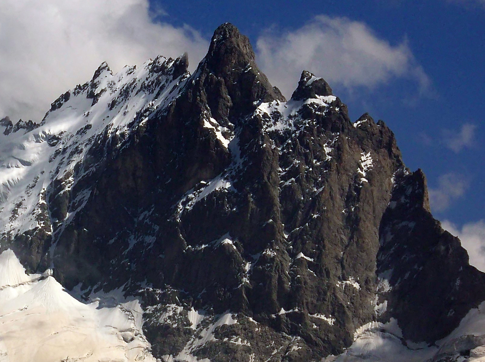 La Meije moutain seen from the Emparis plateau (French Alps).